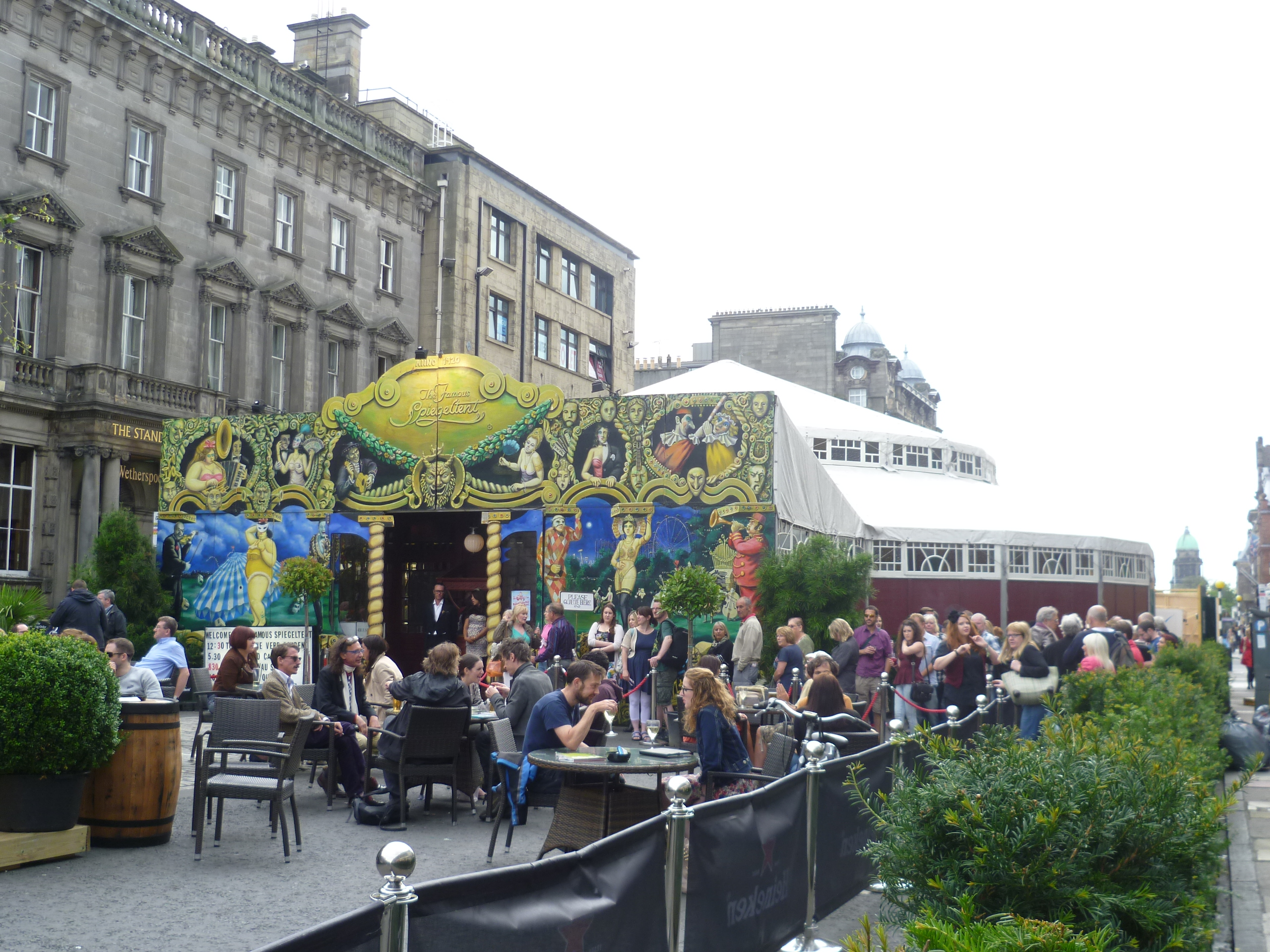 The Famous Spiegeltent, George Street, Edinburgh 2013